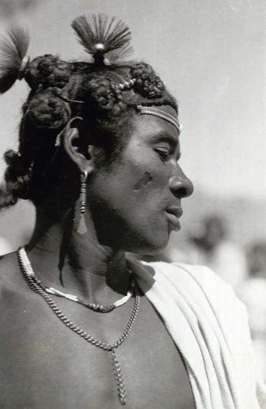 Expedition: Nordisk Film’s Paul Fejo’s expedition to Madagascar 1936. Photo: Paul Fejos